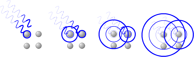 Diffraction of radiations by atoms : interference of wave that are elastically scattered